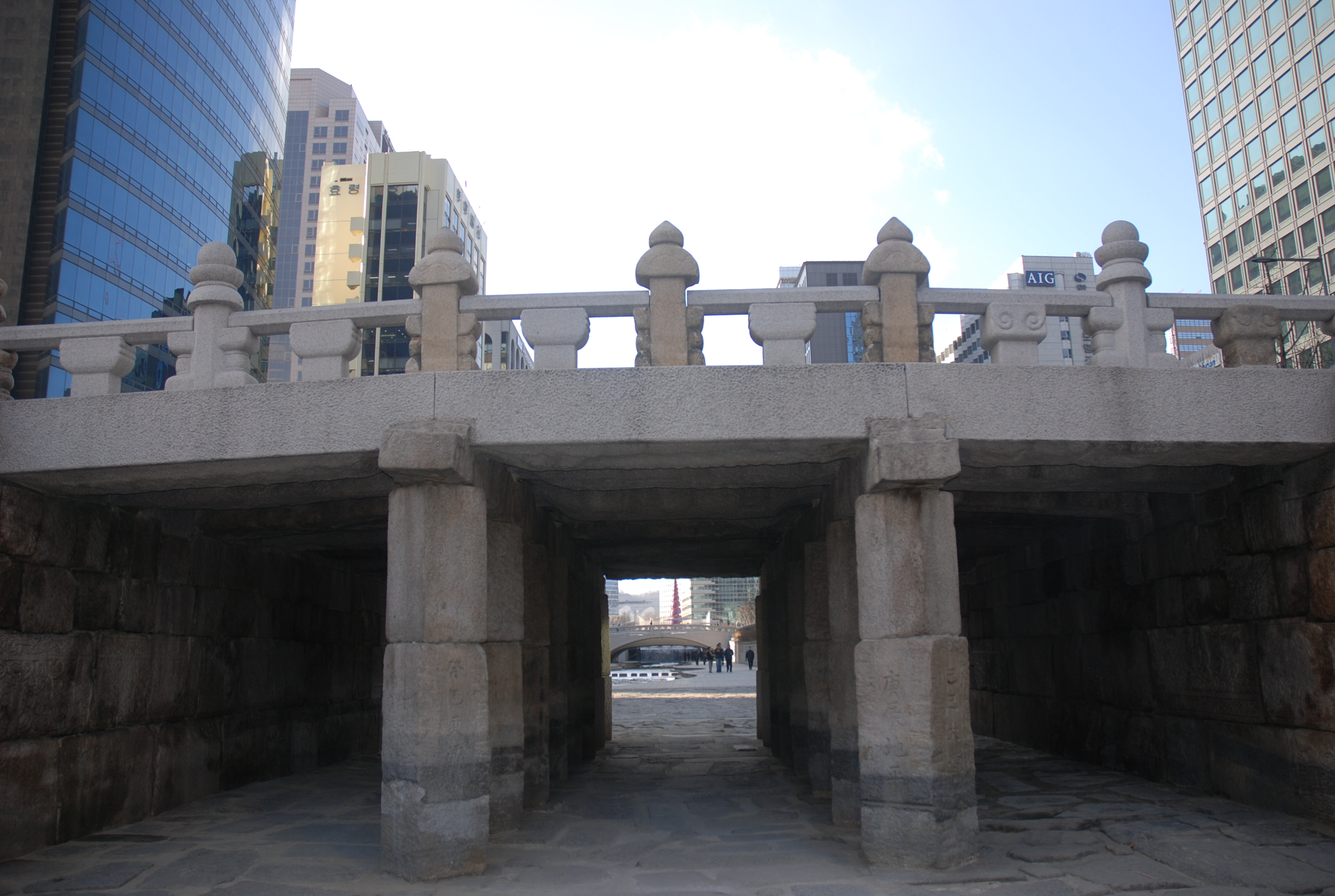 The Kwangtong Bridge, the second bridge from the entrance.